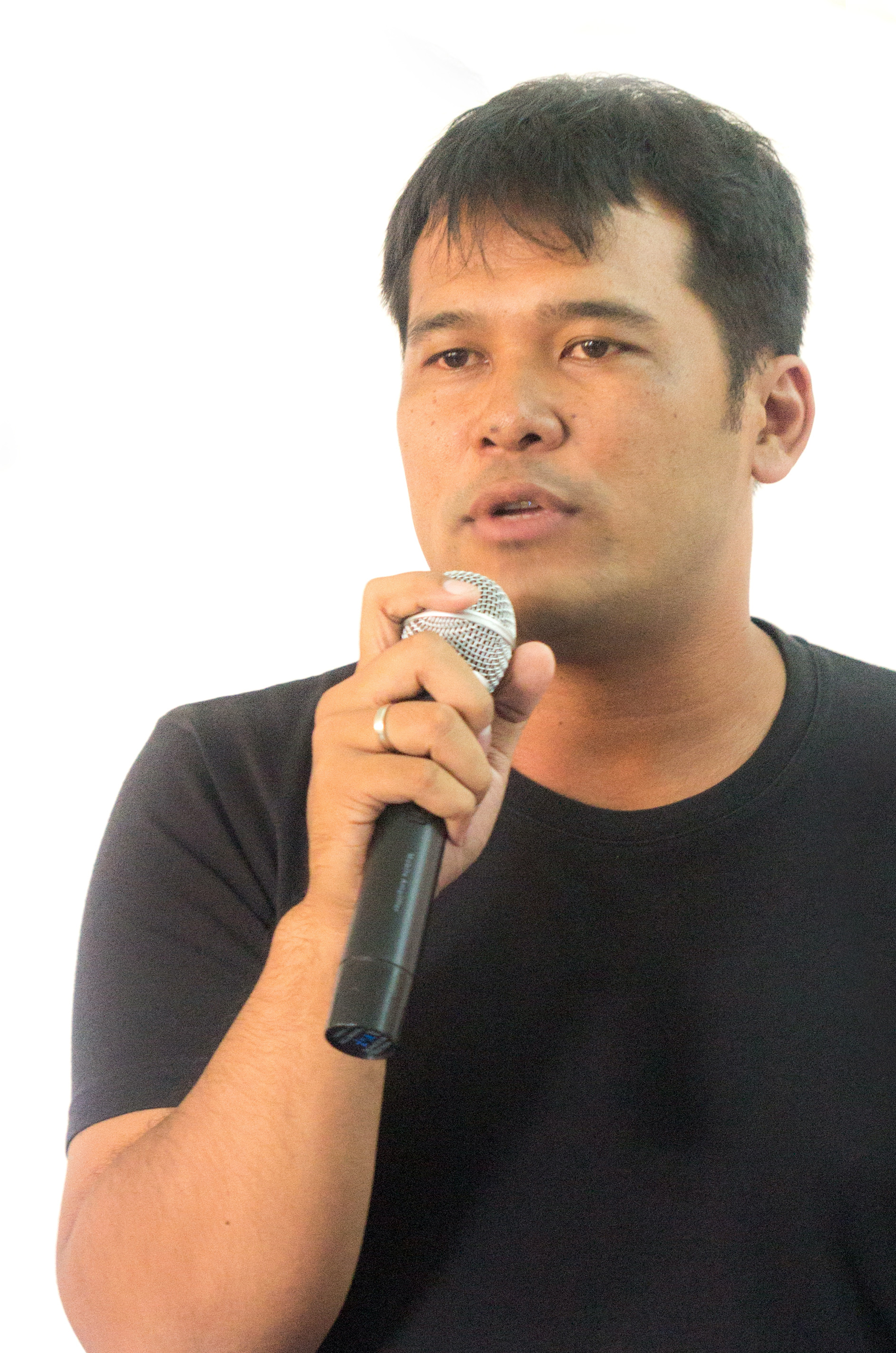 Indonesian film director/producer Ifa Isfansyah at the Indonesia-Germany Institute in Yogyakarta 2018-02-14